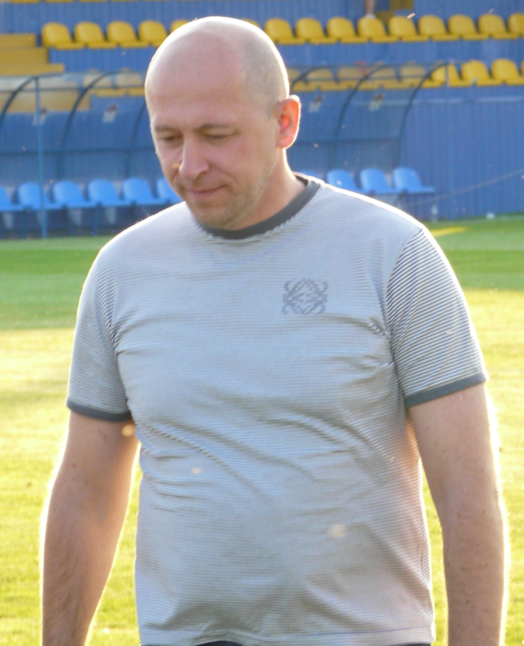 Jurij Kindzerśkyj, the president of Lviv FC